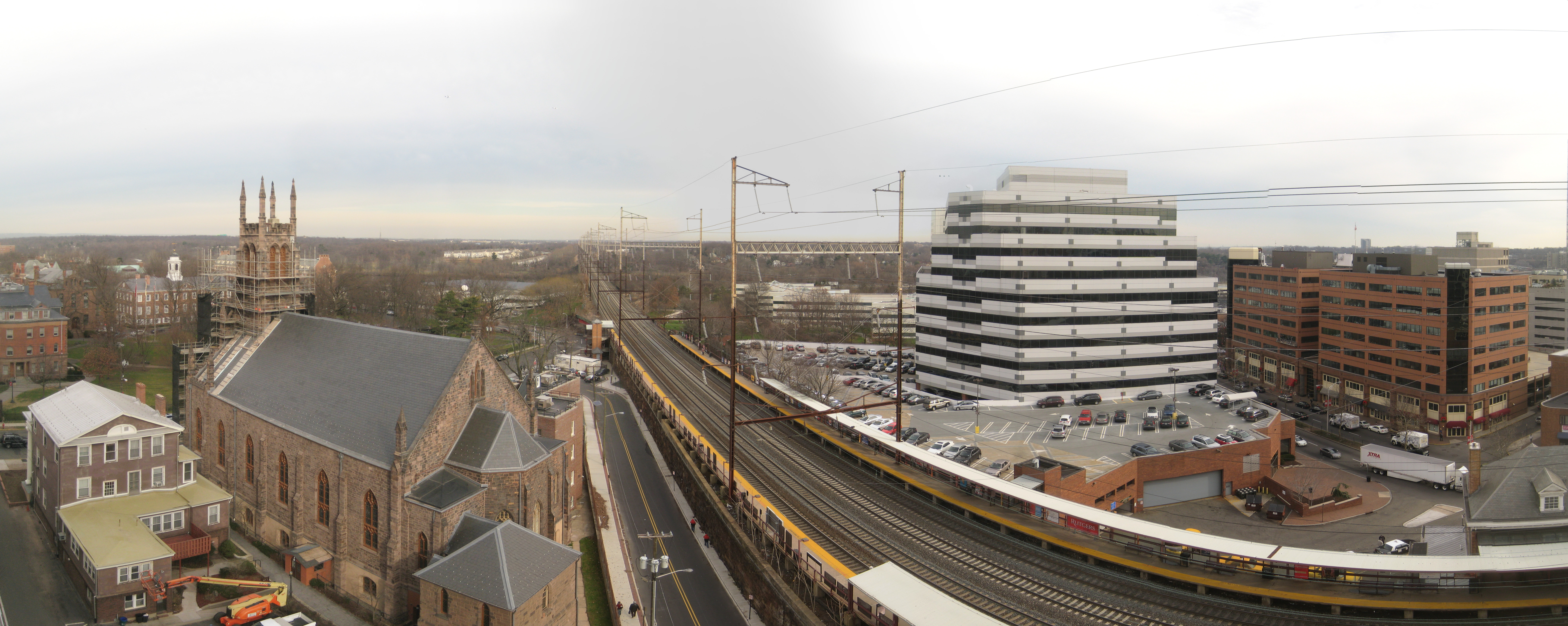 A panorama of the New Brunswick Train Station in New Jersey, USA.